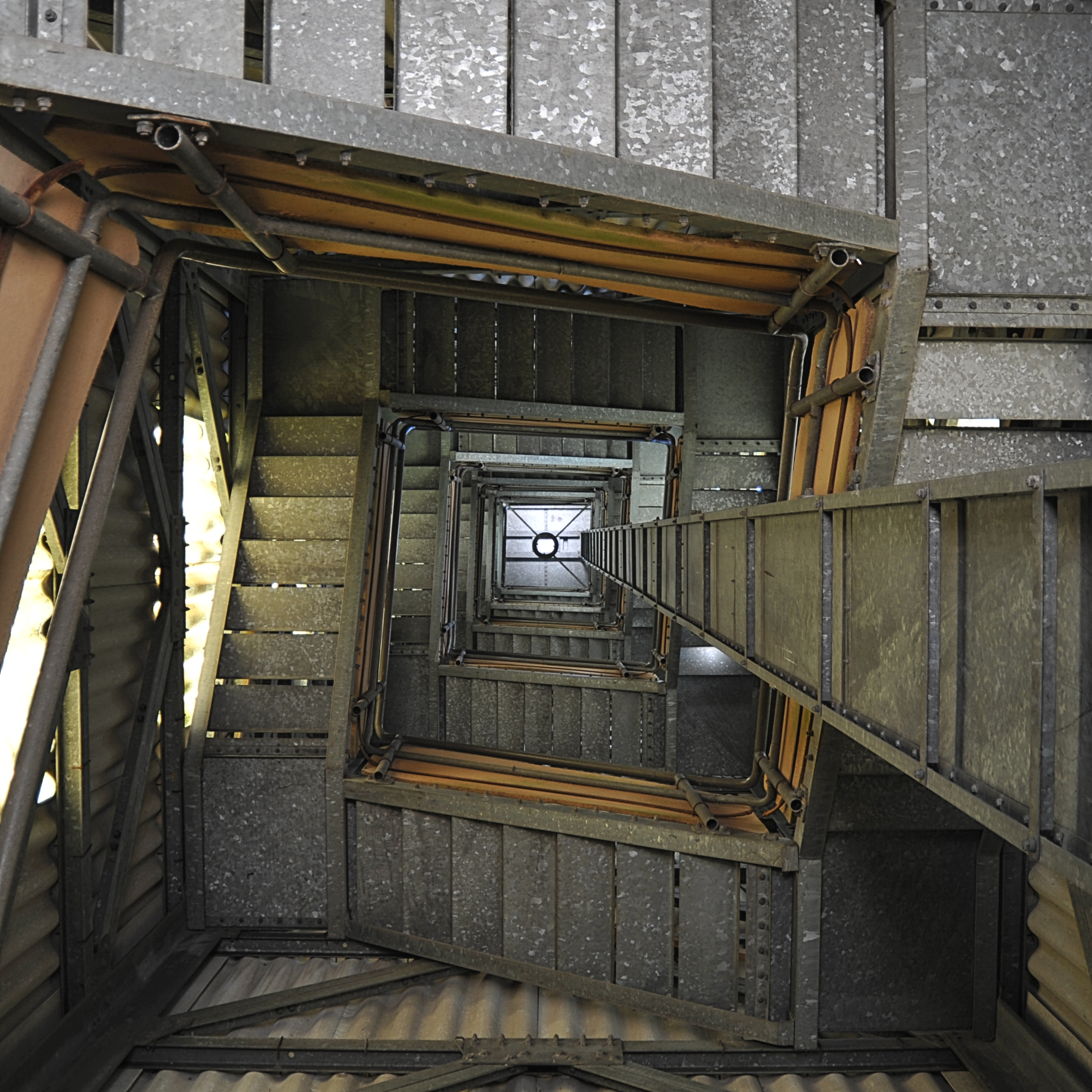 Steel staircase in the observation tower Klausenturm, Germany, Bavaria, Fichtelgebirge.